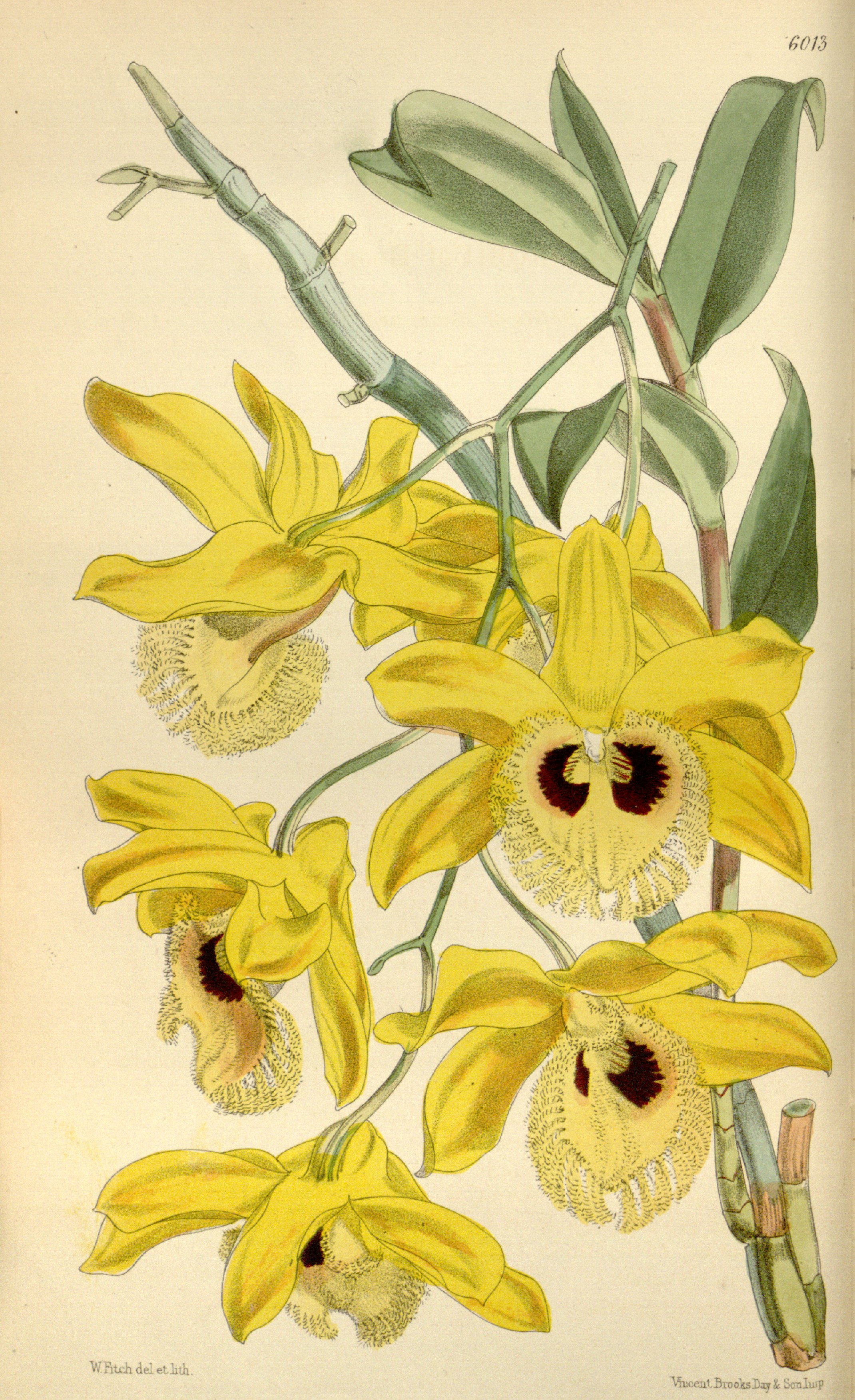 Illustration of Dendrobium hookerianum